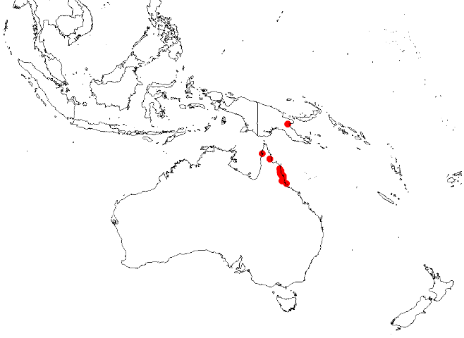 Decaisnina congesta Occurrence data from AVH downloaded 24 February 2019 using